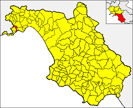 Locator map of the municipality of Ravello (red), within the Province of Salerno, Campania.